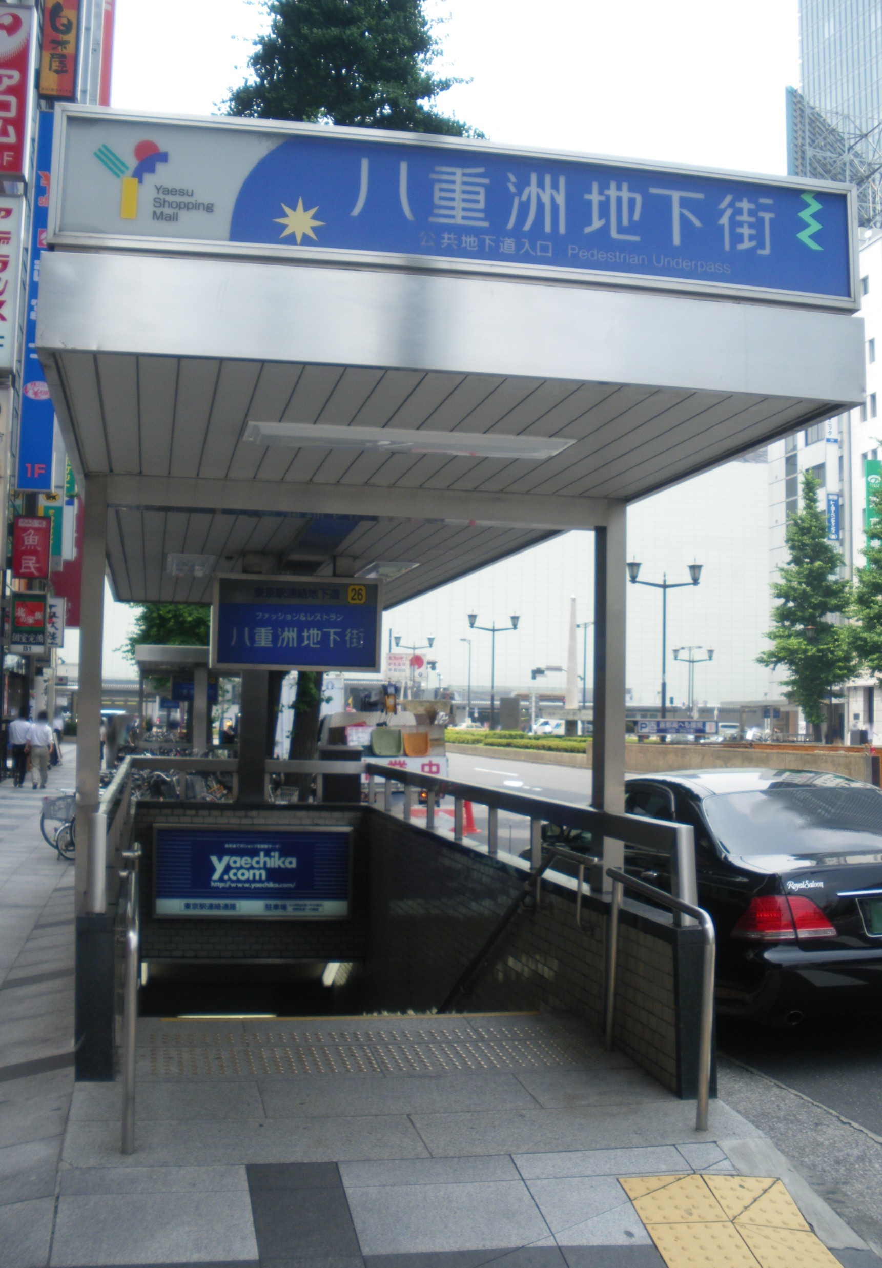 A photo of an entrance of Yaesu shopping mall,Yaesu,Chuo-ku,Tokyo,Japan.